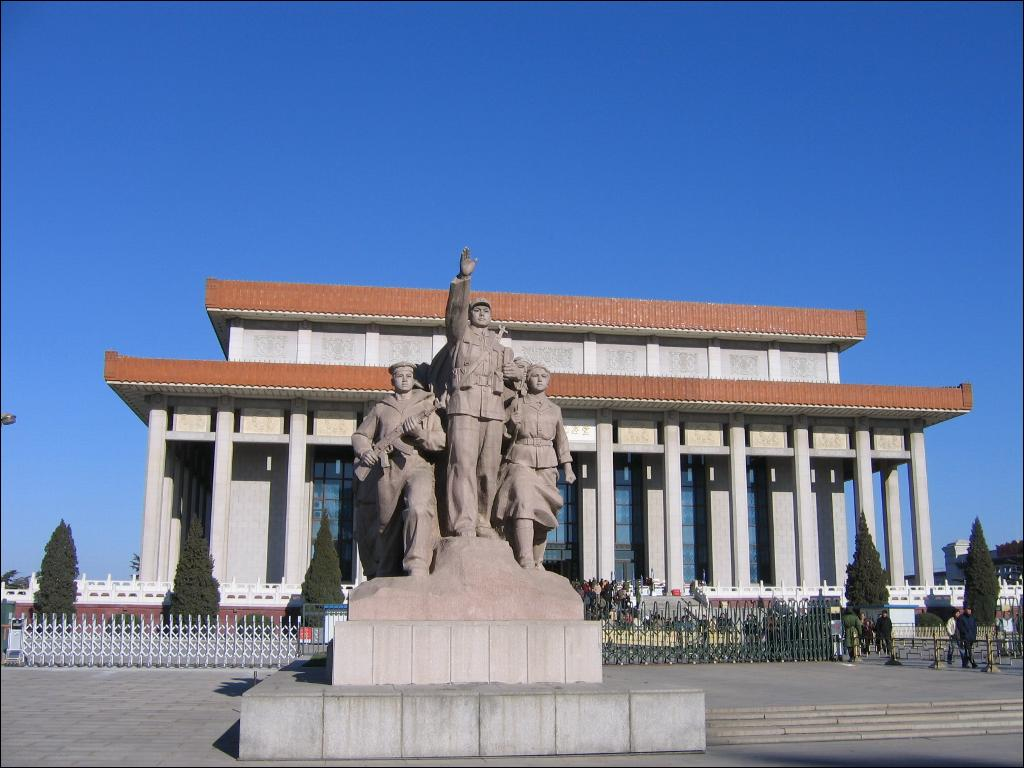 The Mausoleum of Mao Zedong at Beijing